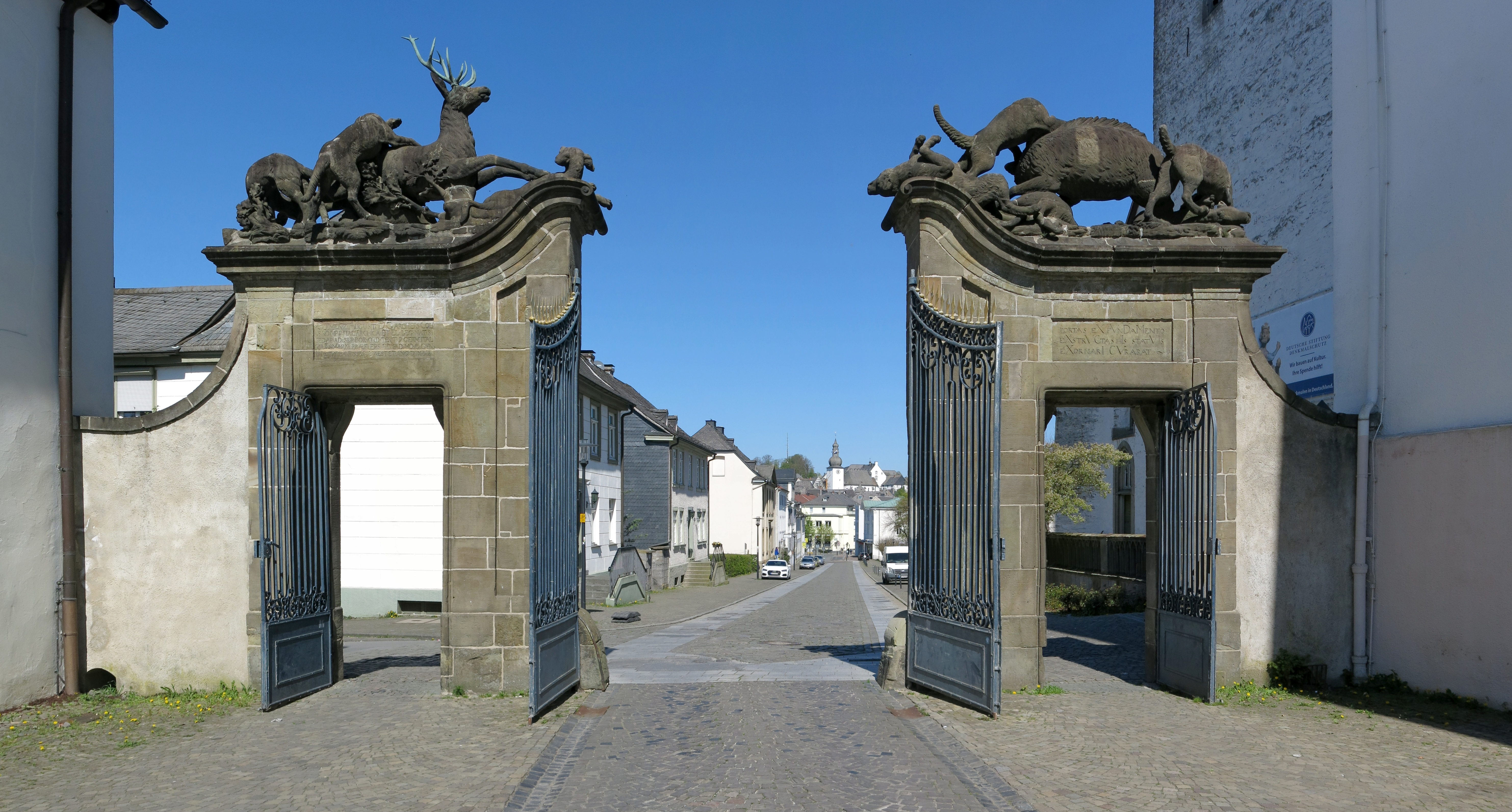 Hirschberg Gate in Arnsberg, seen from southThis is a photograph of an architectural monument., no. 0